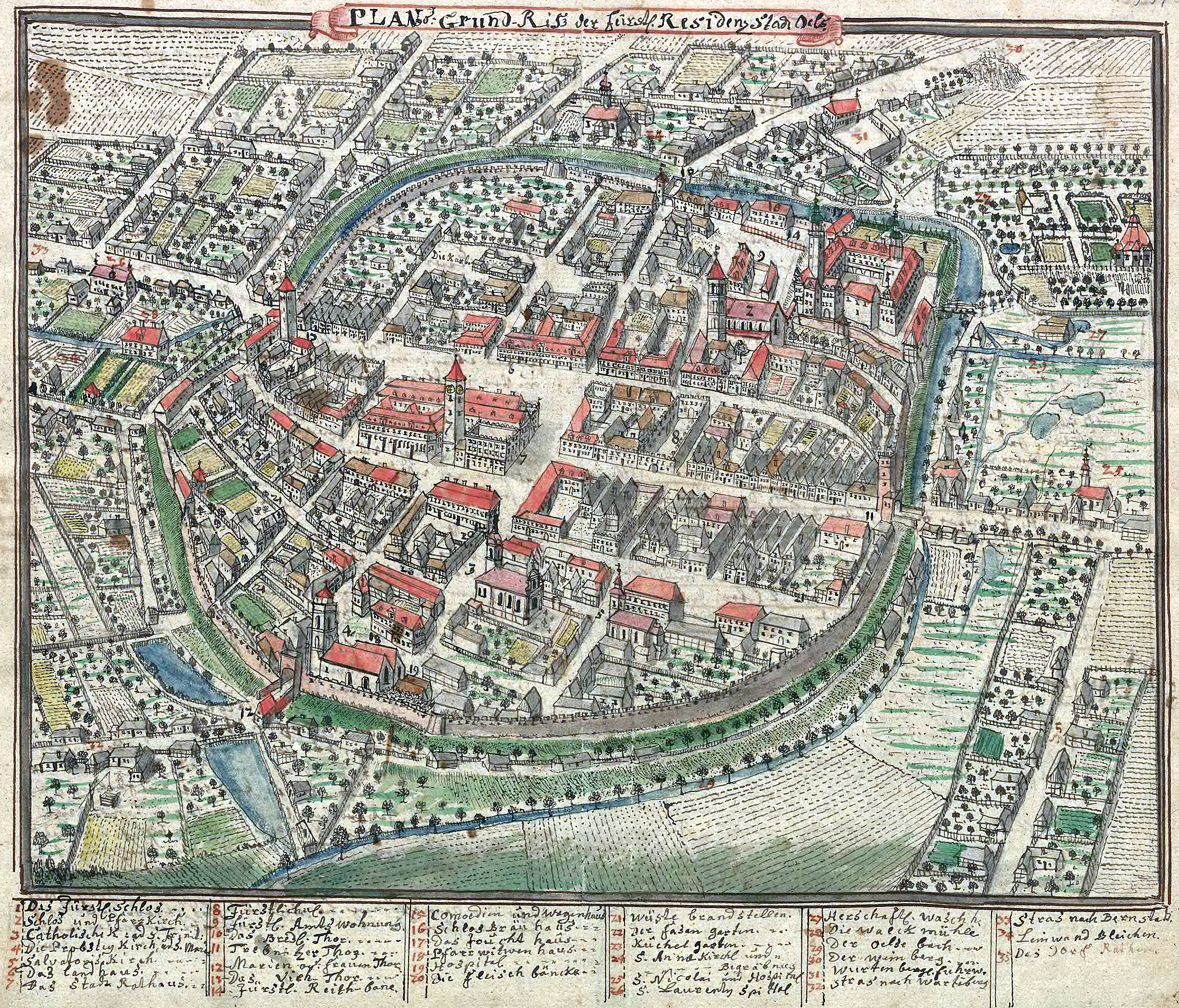 View of the city of Oels (today Oleśnica).